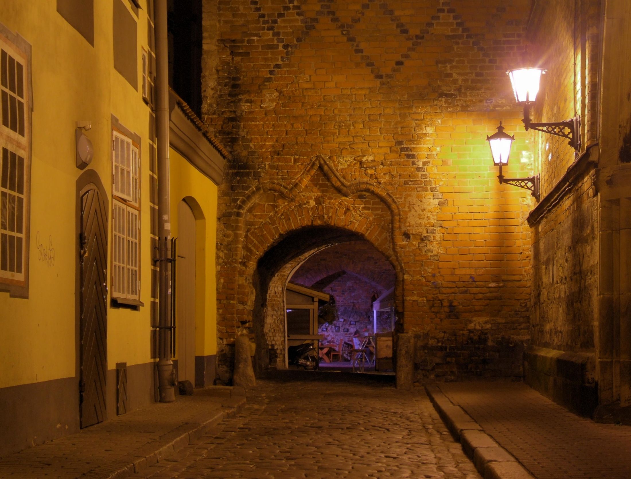 City gate in Riga by night